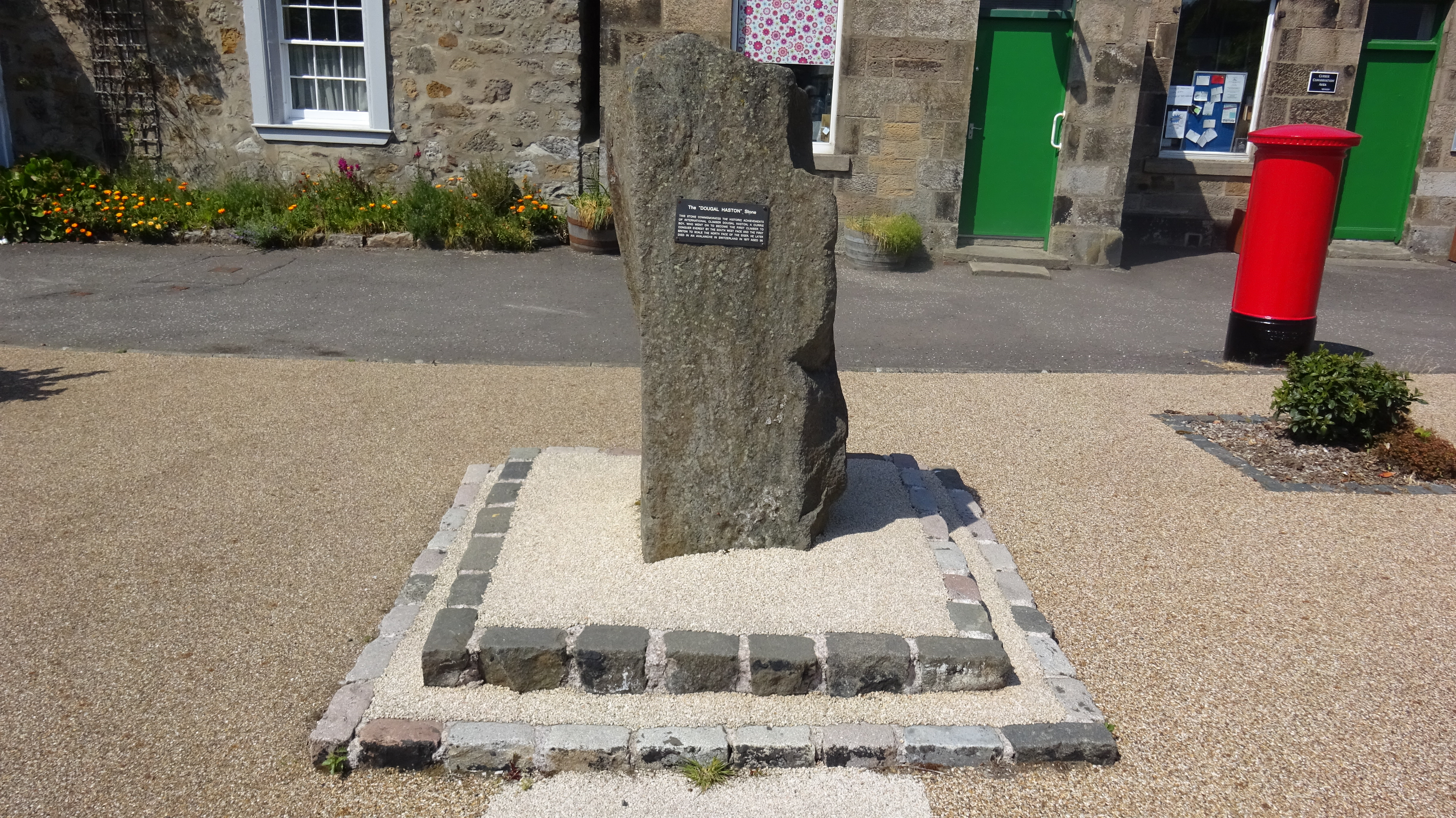 Memorial to Dougal Haston in Currie, Midlothian. He was born in this village. Dougal was a world renowned climber.